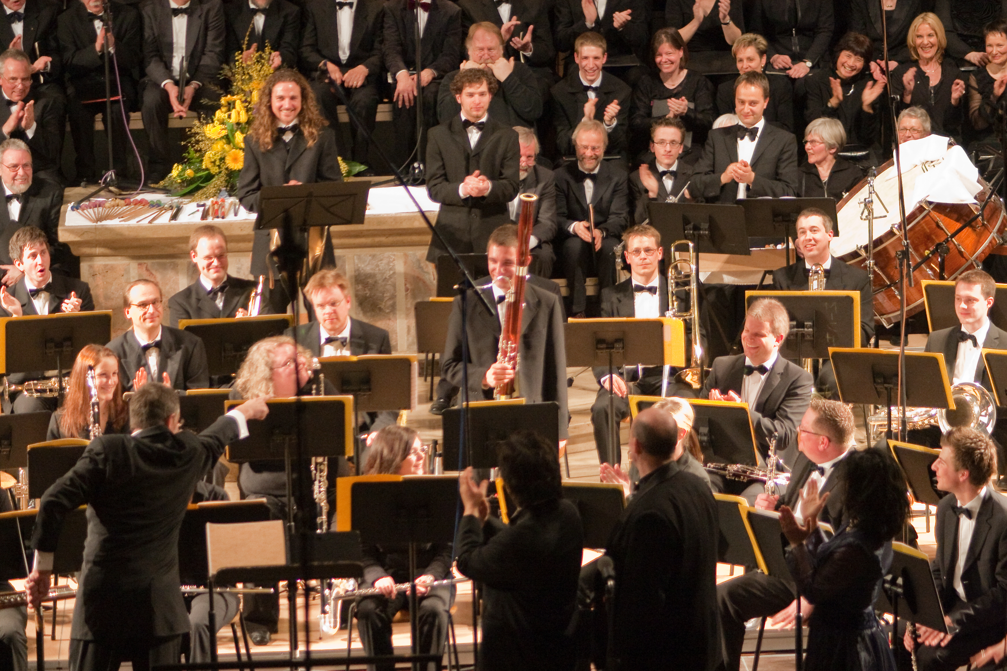 Conductor Douglas Bostock honours the bassoonist Michael Windstoßer of the Sinfonisches Blasorchester Ulm at the end of the concert.